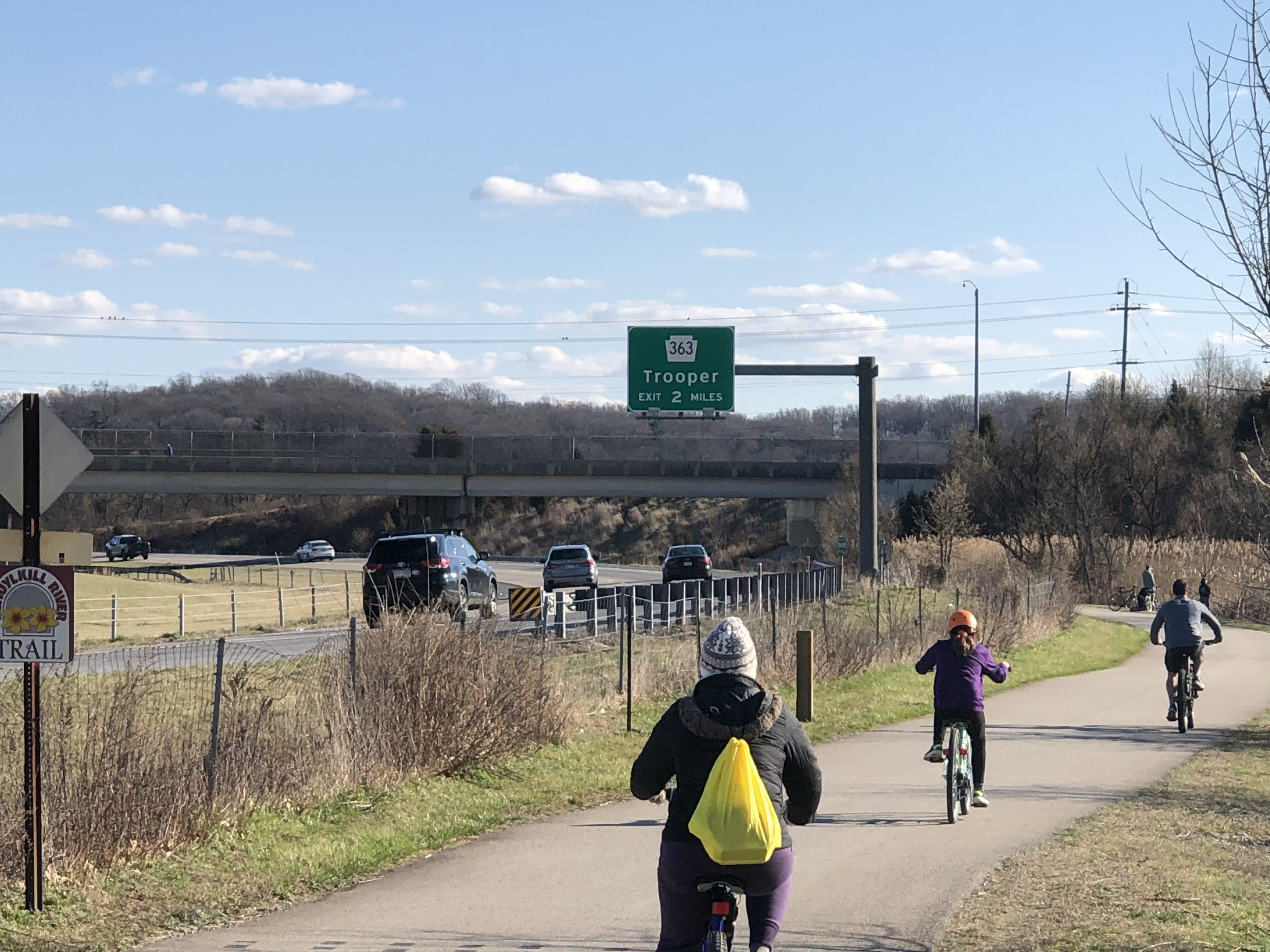 US 422 Schuylkill River Trail